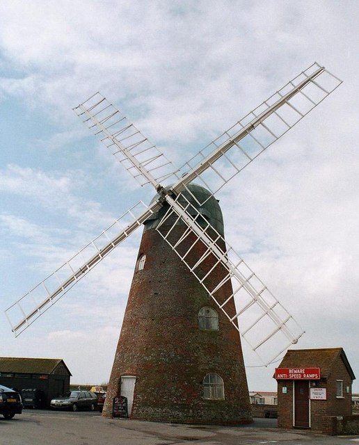 Photograph of Selsey windmill